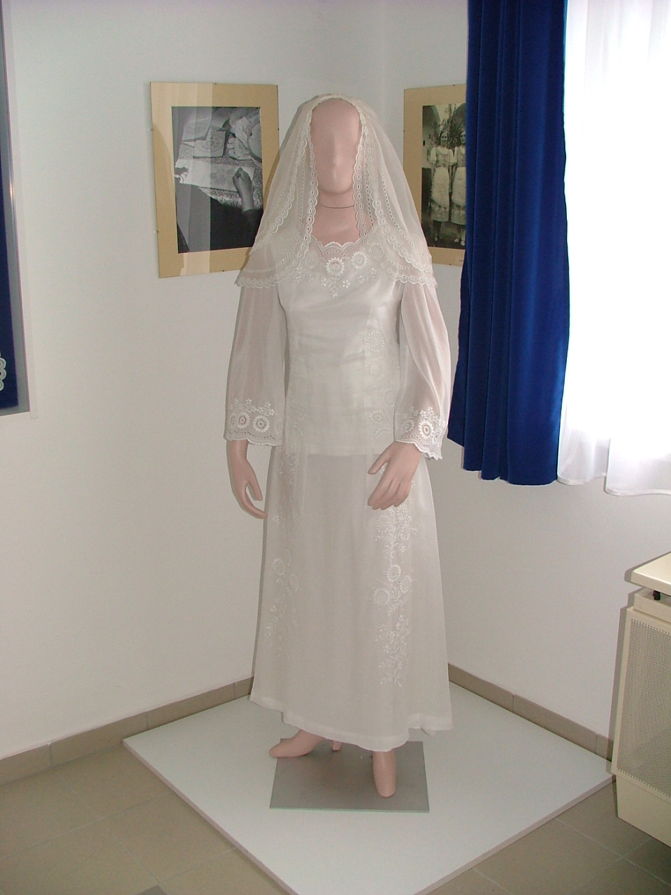 Hövej, Bridal costume made of lace